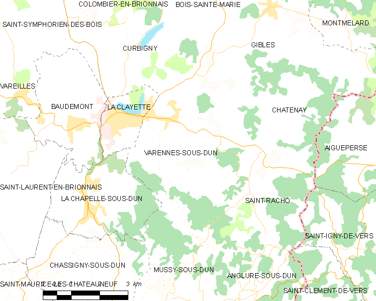 Map of French municipality